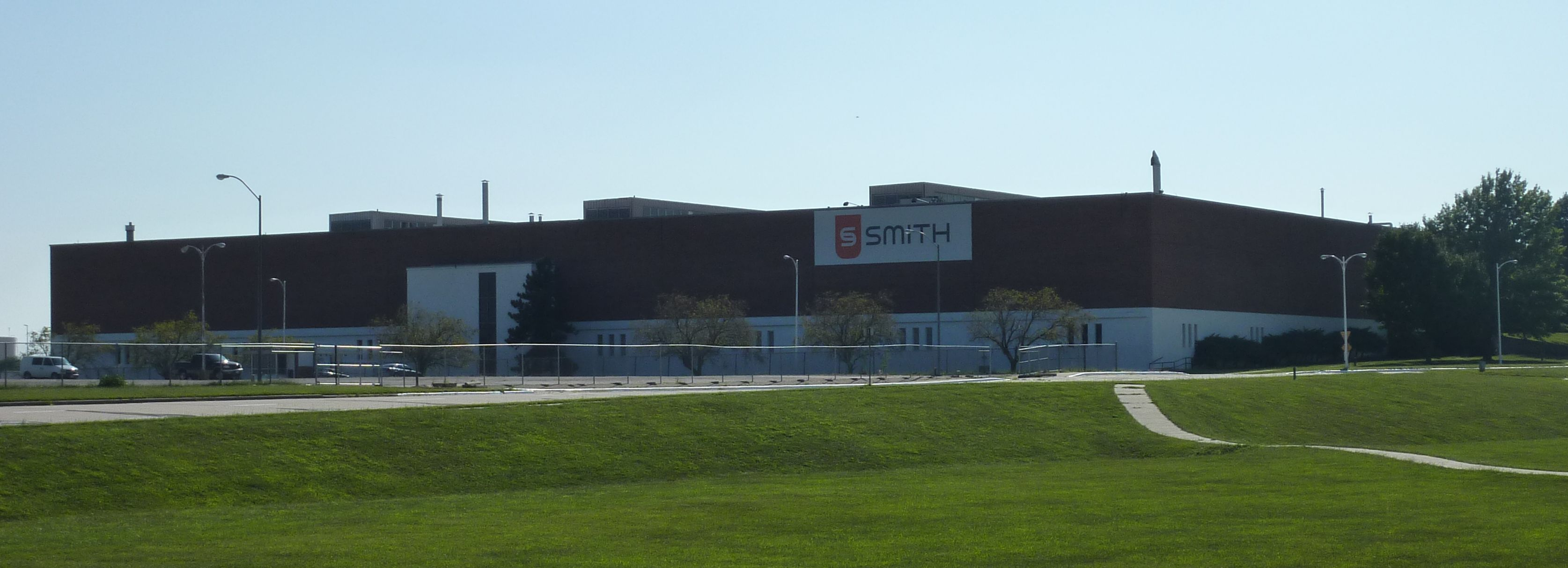 Smith Electric Vehicles factory at Kansas City International Airport